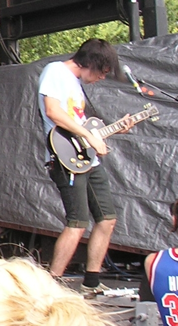 James Frost performing on the Vans Warped Tour in St. Petersburg.